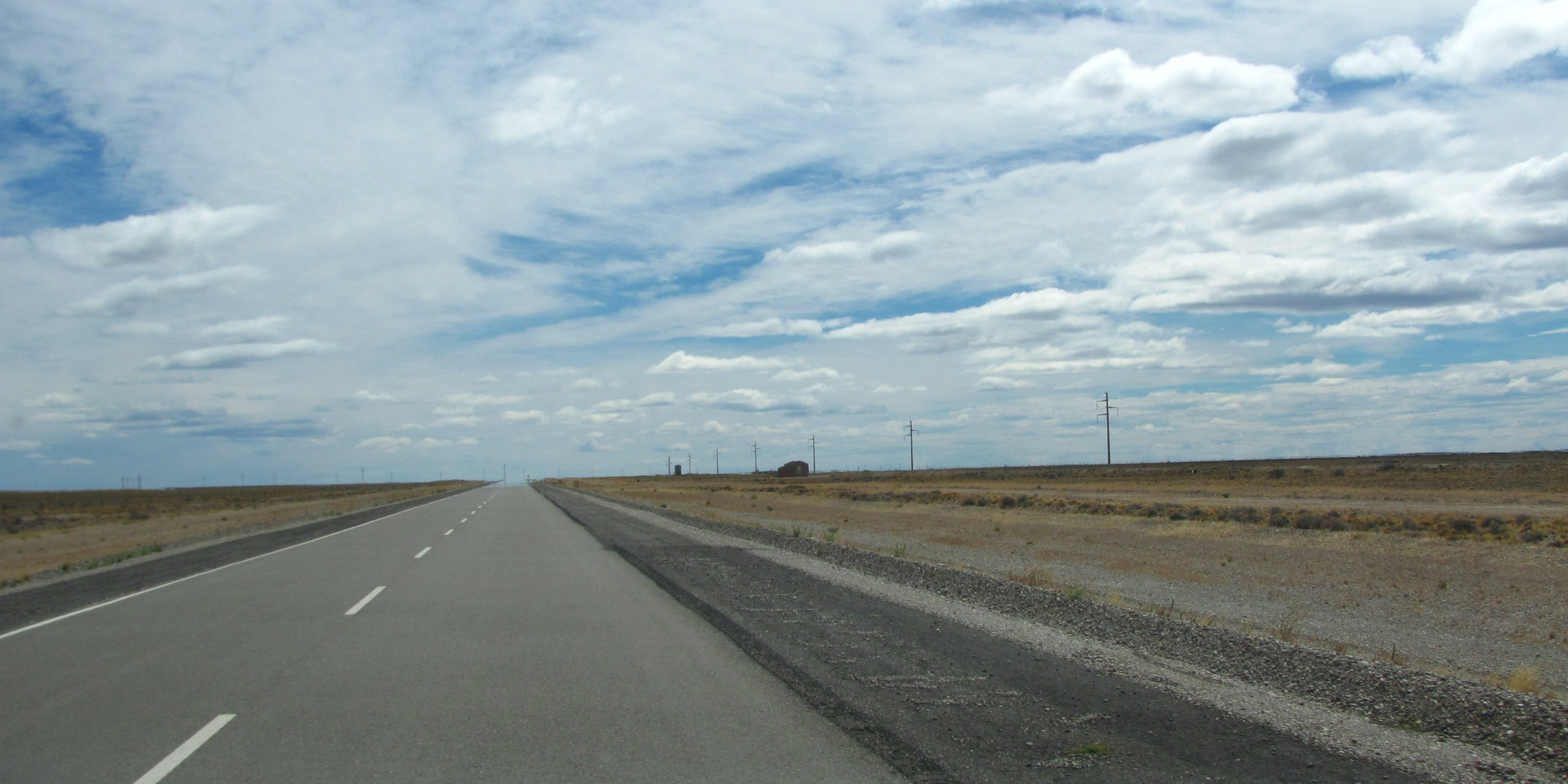 View of National Route 281 in Santa Cruz Province, Argentine Patagonia